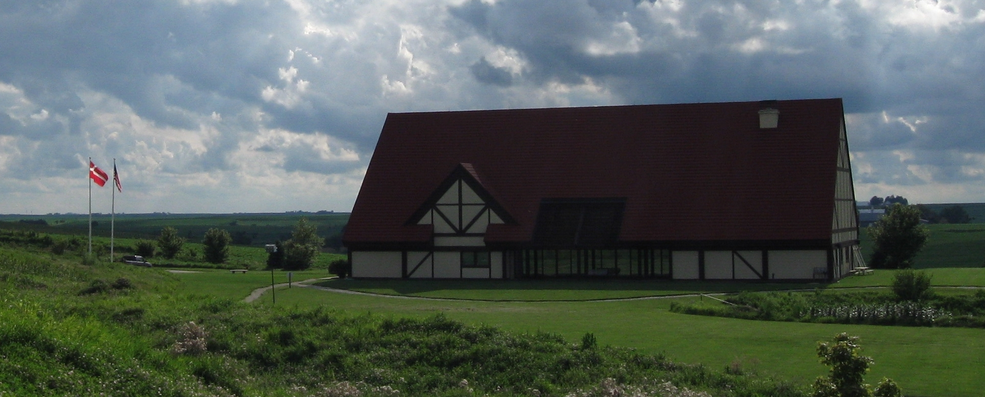 Photograph taken of the east side of the museum building.